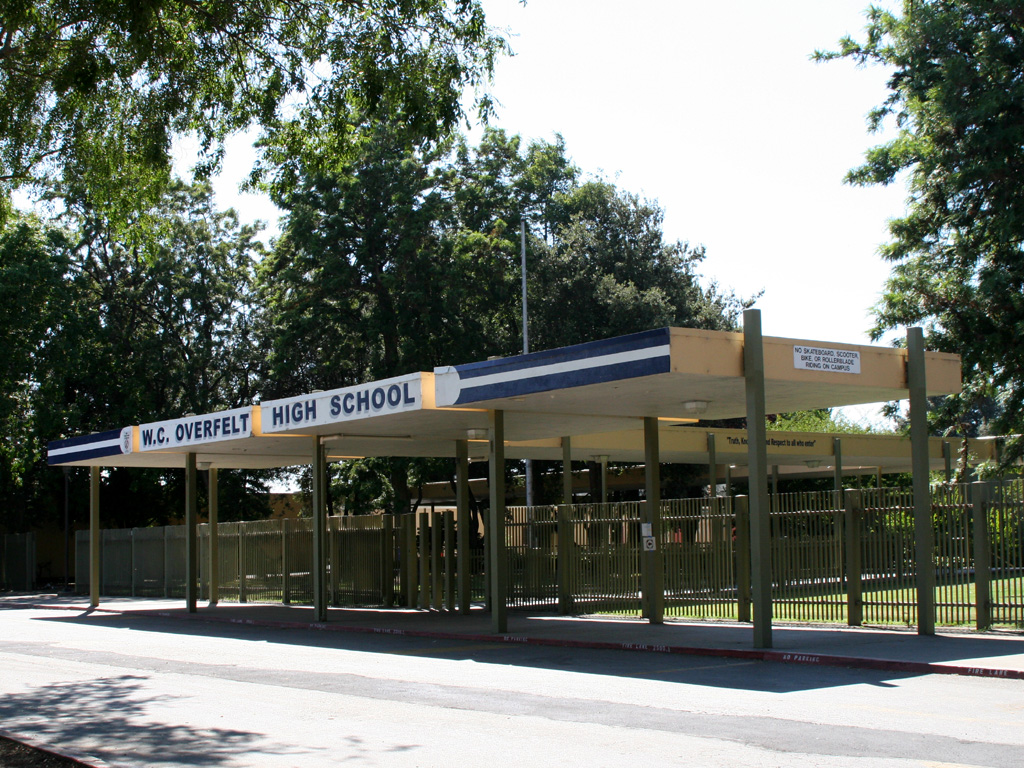 W.C. Overfelt High School entrance. Photograph taken by Bahn Mi of the Schoolwatch Programme and released freely under the Creative Commons Attribution ShareAlike 2.0 license.